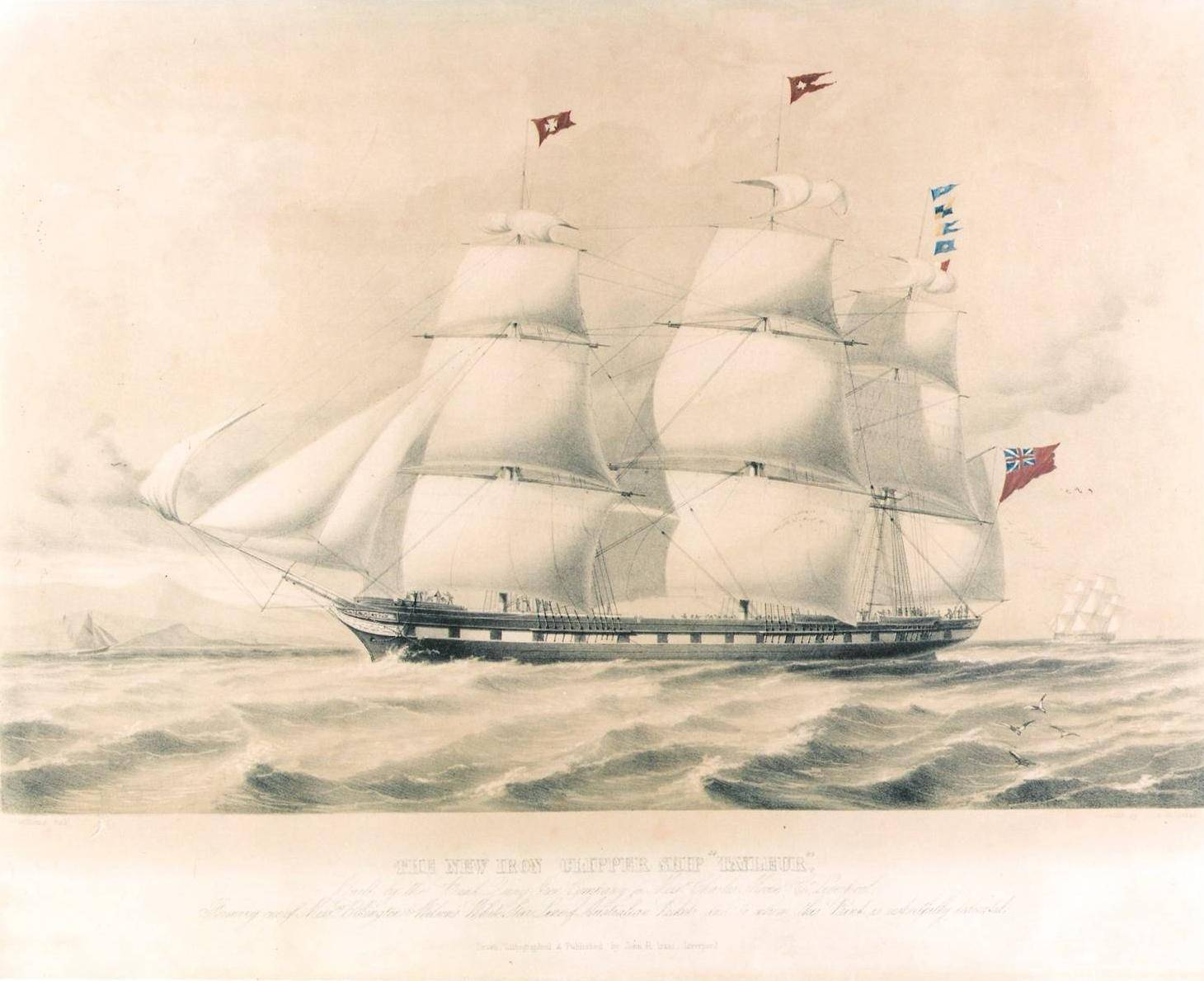 RMS Tayleur